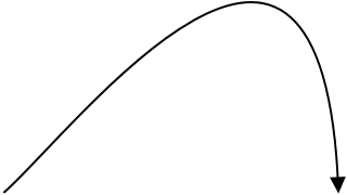 Flying path of feather shuttlecocks